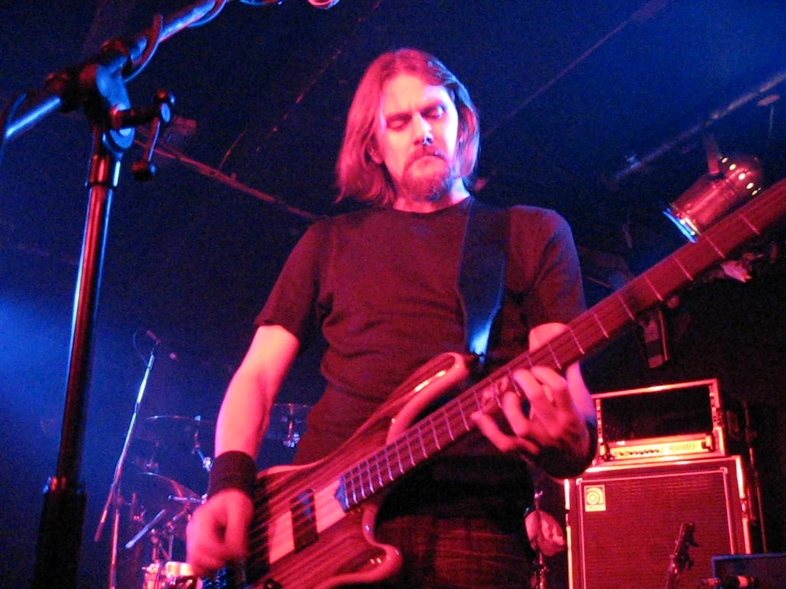 Mariusz Duda from Riverside at The Underworld, Camden. 2007-11-30.